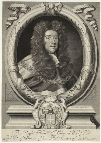 Portrait of Sir Edward Ward (1638–1714), English lawyer and judge.